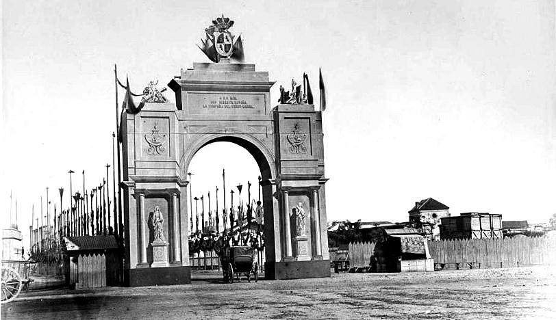 One of the triumphal archs in Seville for the arrival of Queen Isabel II.